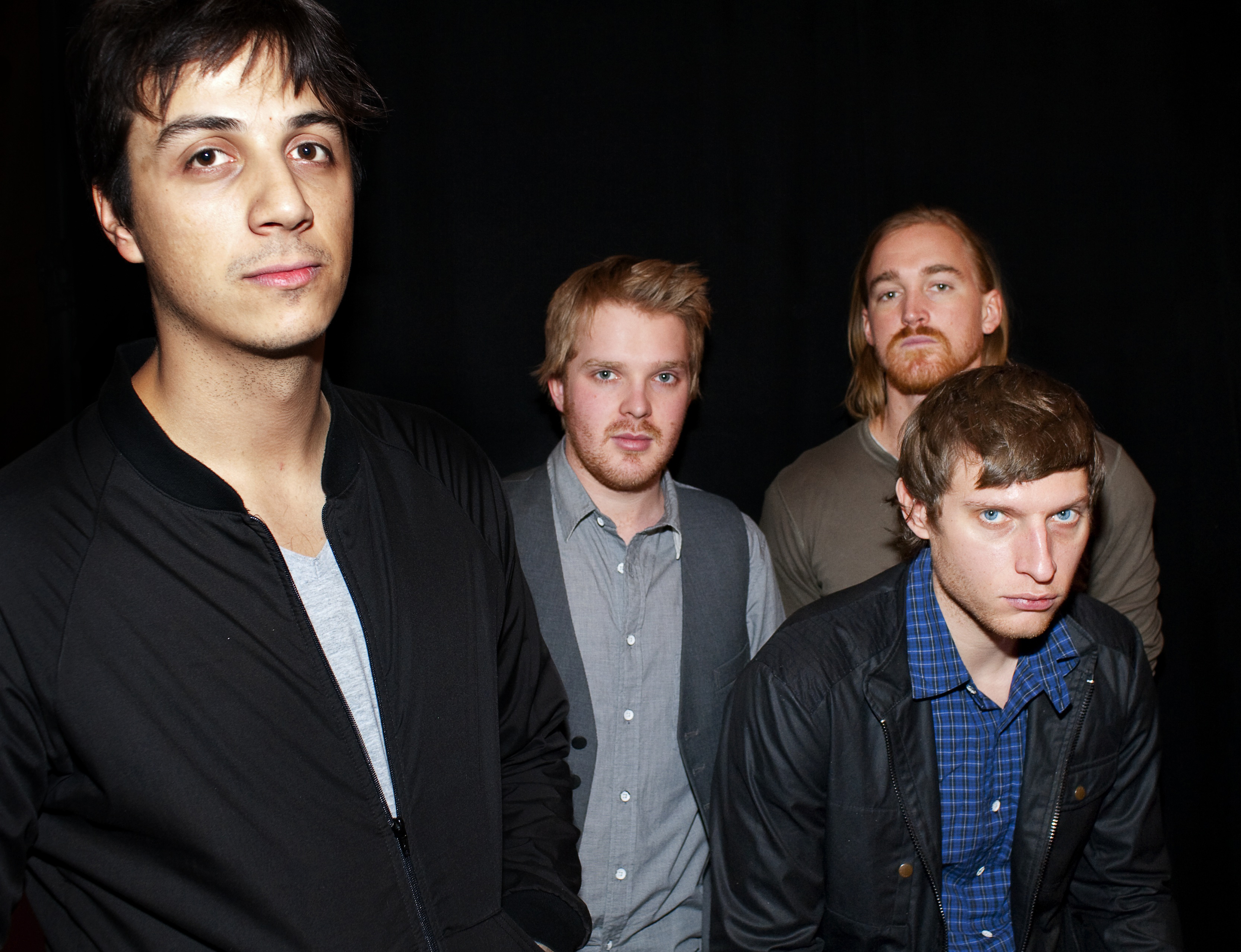 free press photo form the band for use on wikipedia.